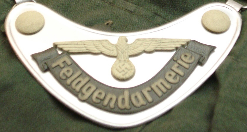 Summer service dress jacket and gorget of a sergeant in the German Feldgendarmerie (military police),captured at Avranches (France), 7 August 1944.